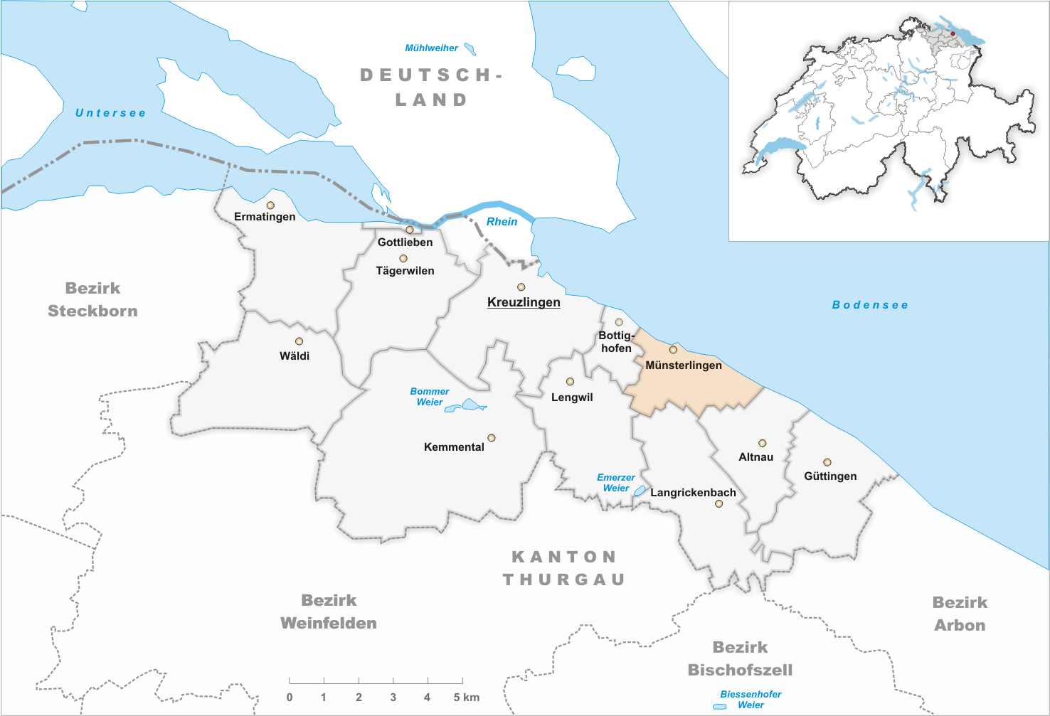 Municipality Münsterlingen